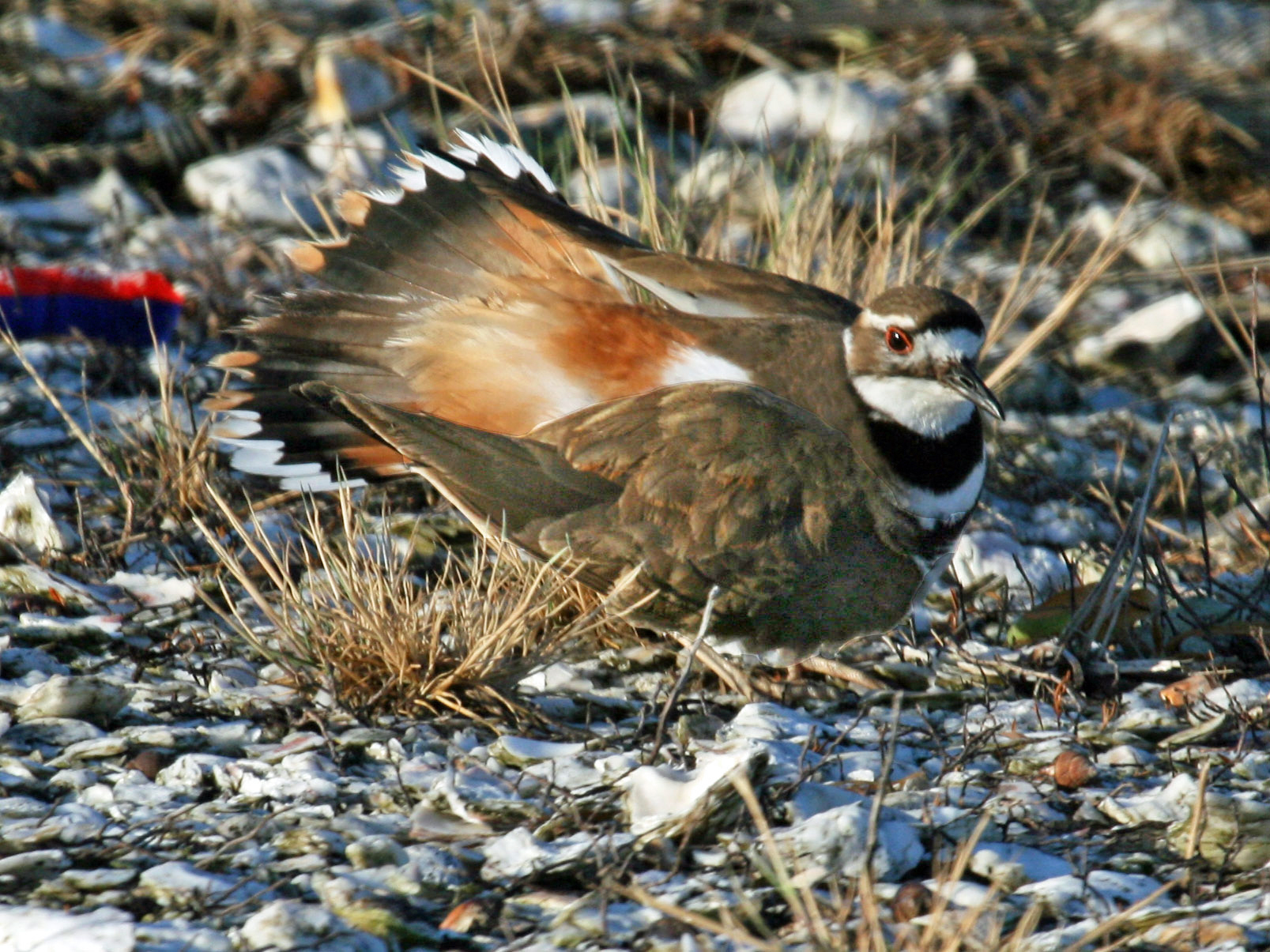 Killdeer (Charadrius vociferus) at Assateague Virginia. In mating display.